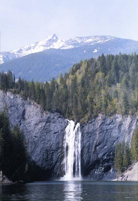 The waters of the PeeWee Falls cascade over a sheer cliff into the Pend Oreille River — in northeastern Washington (state).